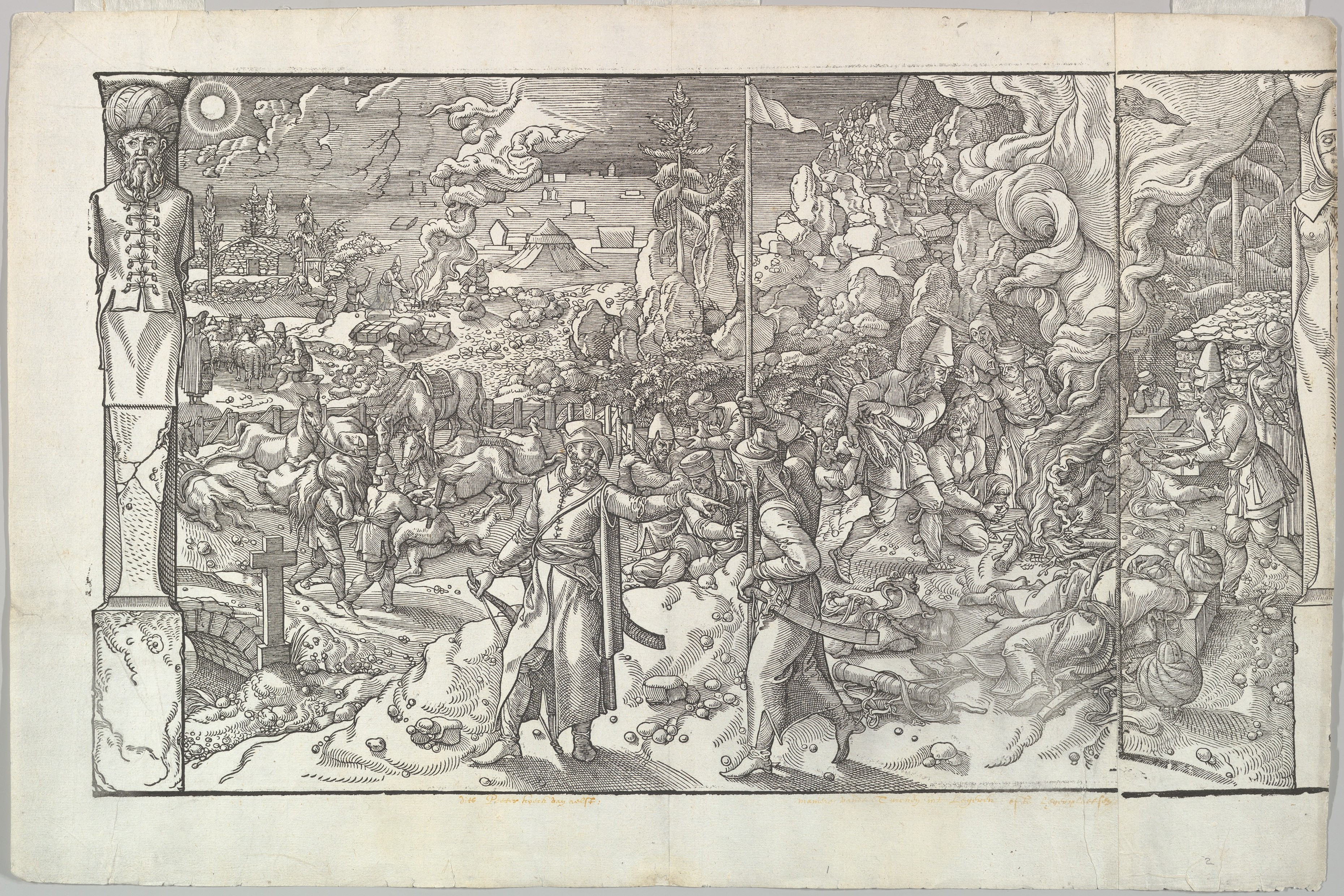 Print; Prints